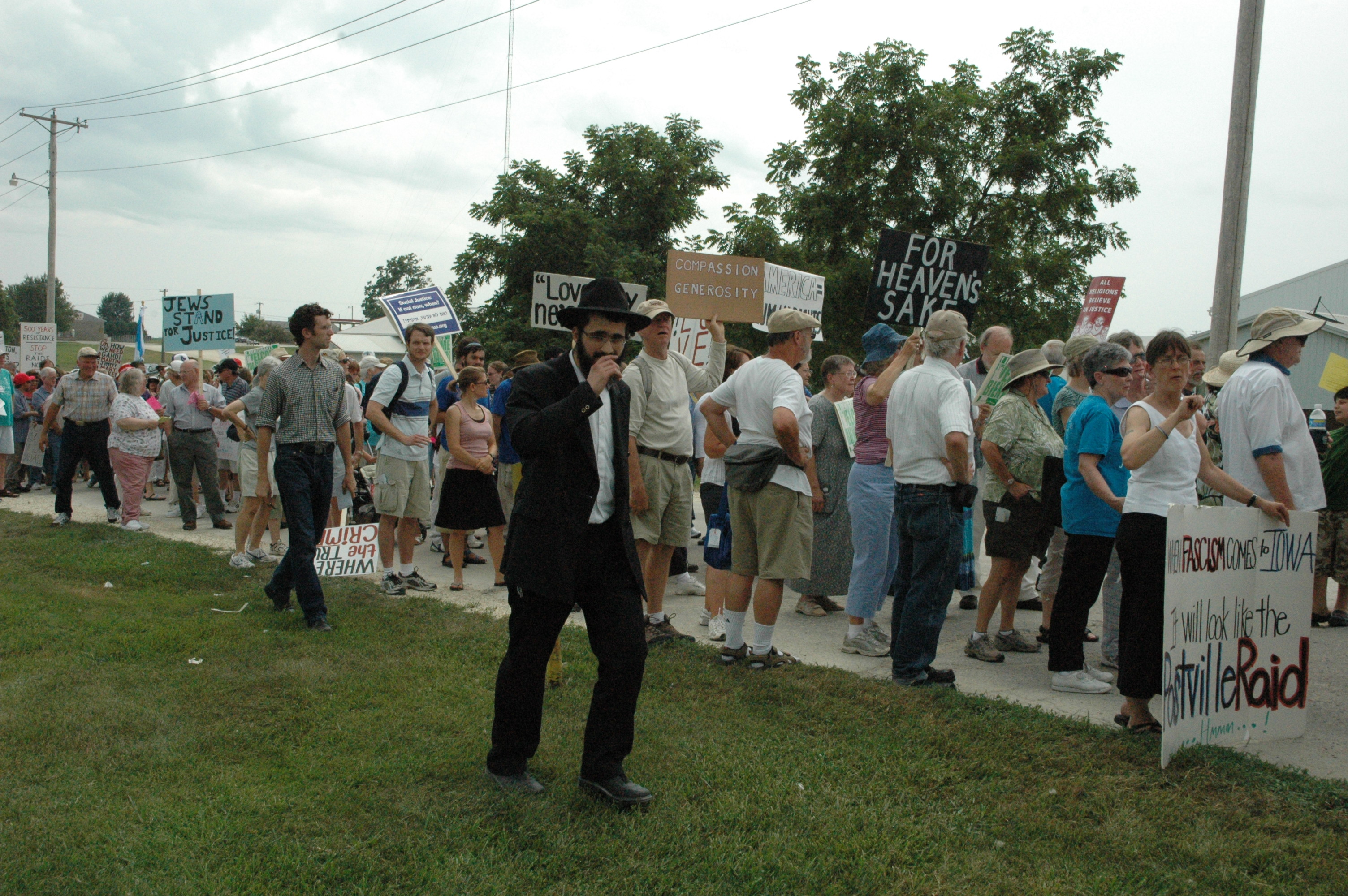 Protest against raid and immigrant abuse. Protest Rally on July 27, 2008.